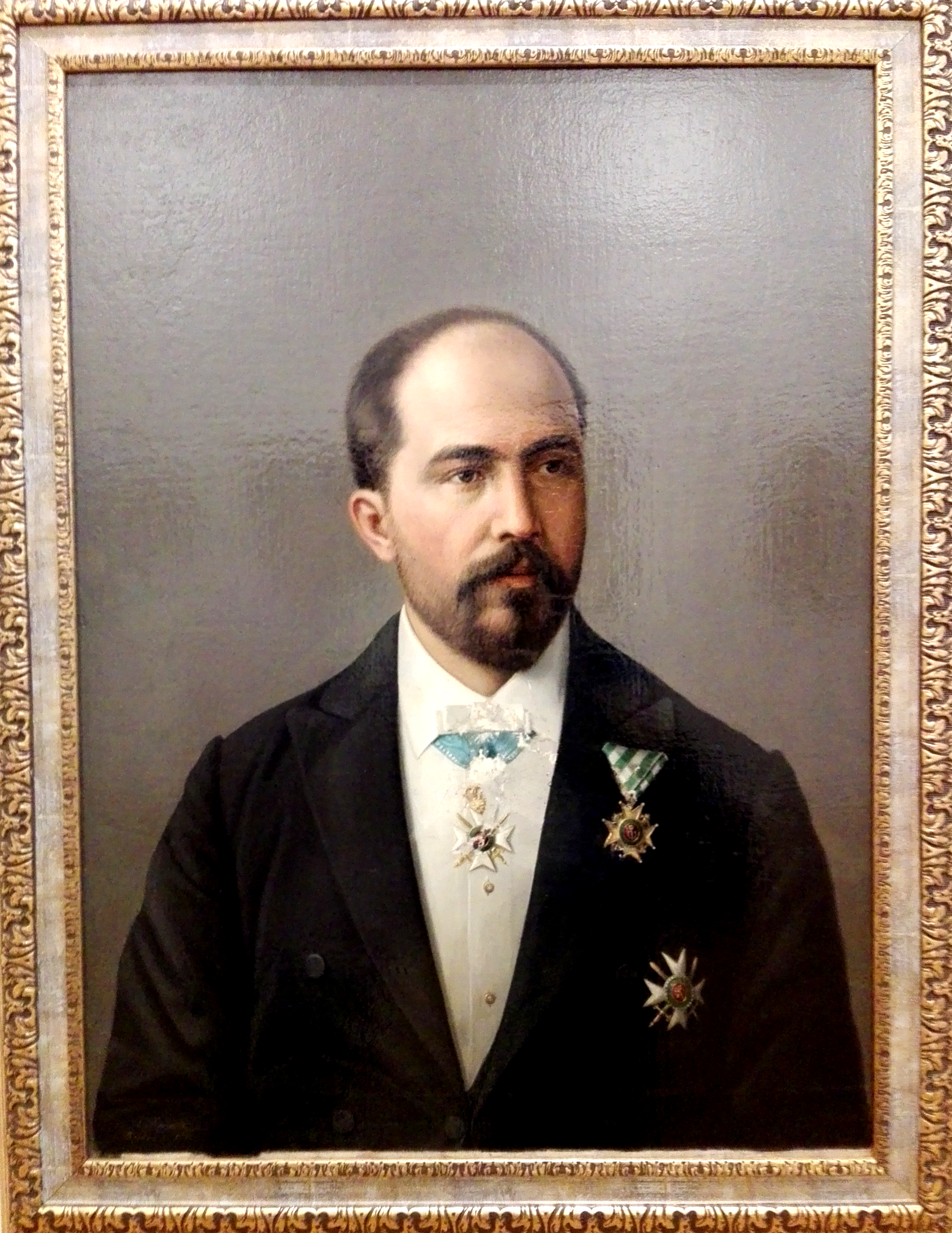 Portrait of Stefan Stambolov (1895) painted by Georgi Danchov Zografina. National Gallery, Sofia